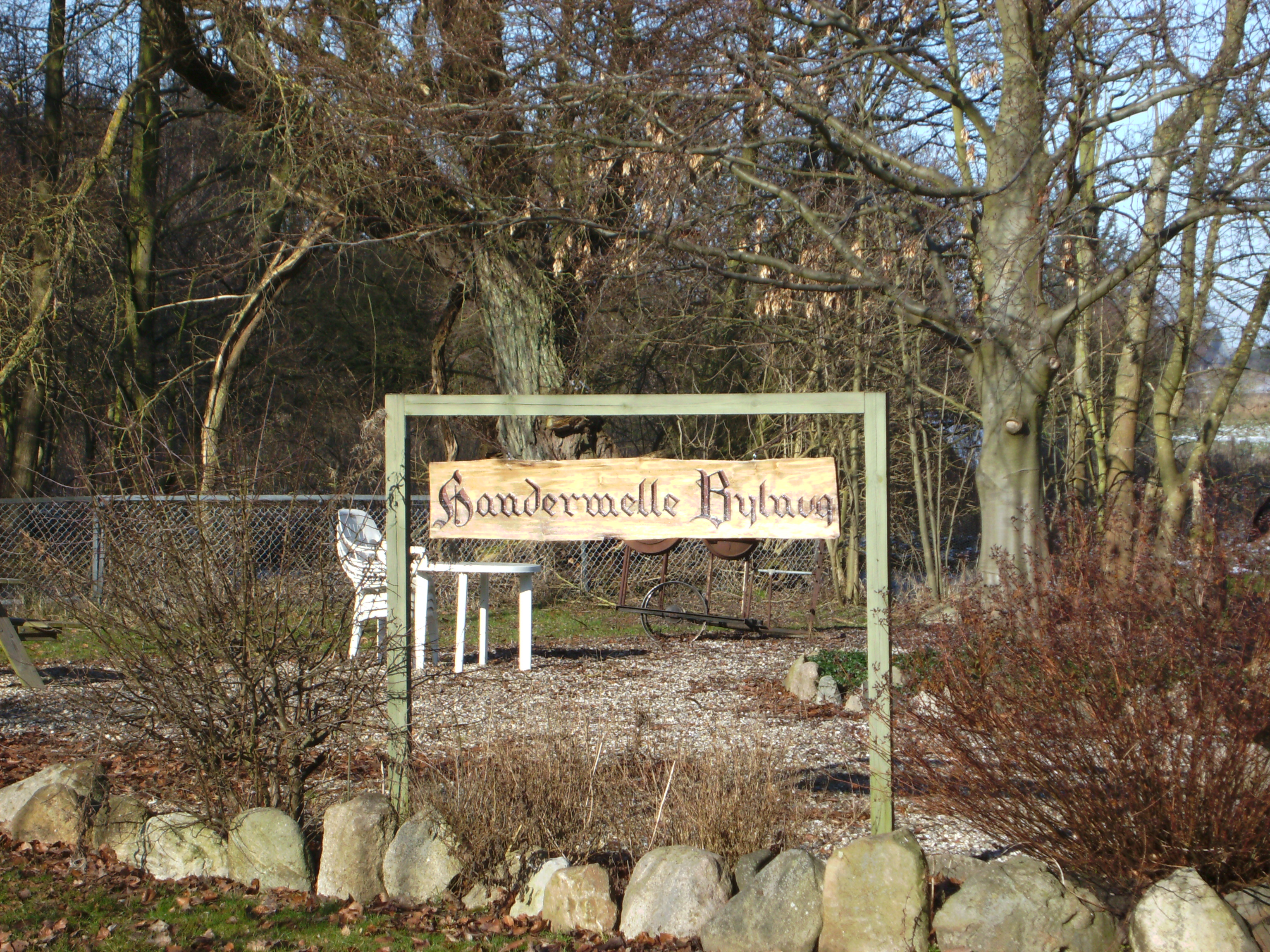 Handermelle is a small village in Denmark (Lolland)